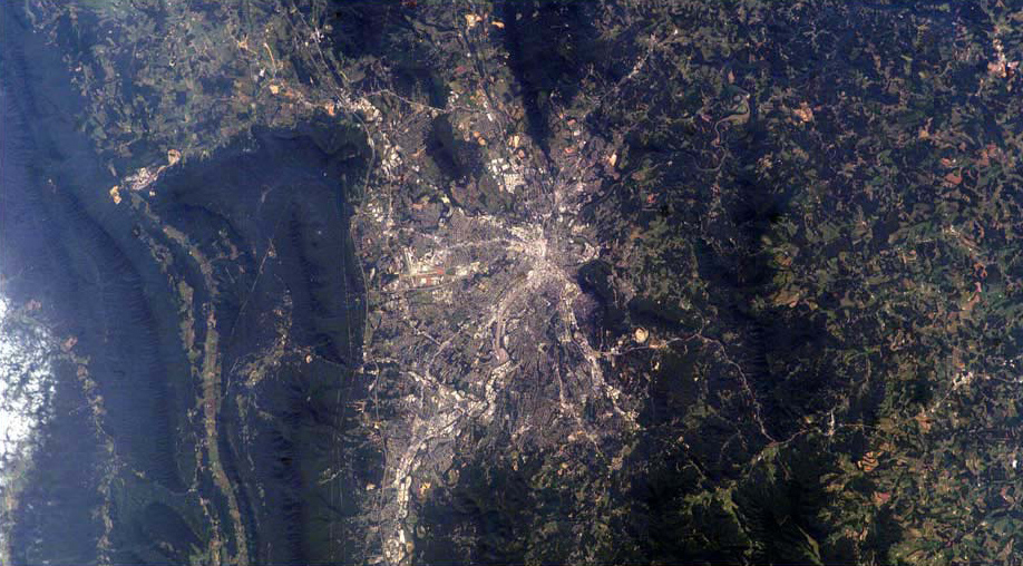 The raw satellite imagery shown in these images was obtain from NASA and/or the US Geological Survey. Post-processing and production by